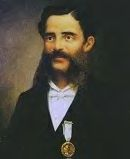 image of Puerto Rican composer Manuel Gregorio Tavarez obtained from Rationale for use: 1. The subject is no longer alive, he died in 1883, therefore the image in question is not replaceable2. Image is early 1870's used as promotional and appears in multiple sites.3. Will be used only in subjects Bio. and/or articles related to subject4. Image is low resolution5. Image pre-1930's before copyright laws were established6. Due to the timeline of the image it is assumed that the unknown author of the image is no longer alive.